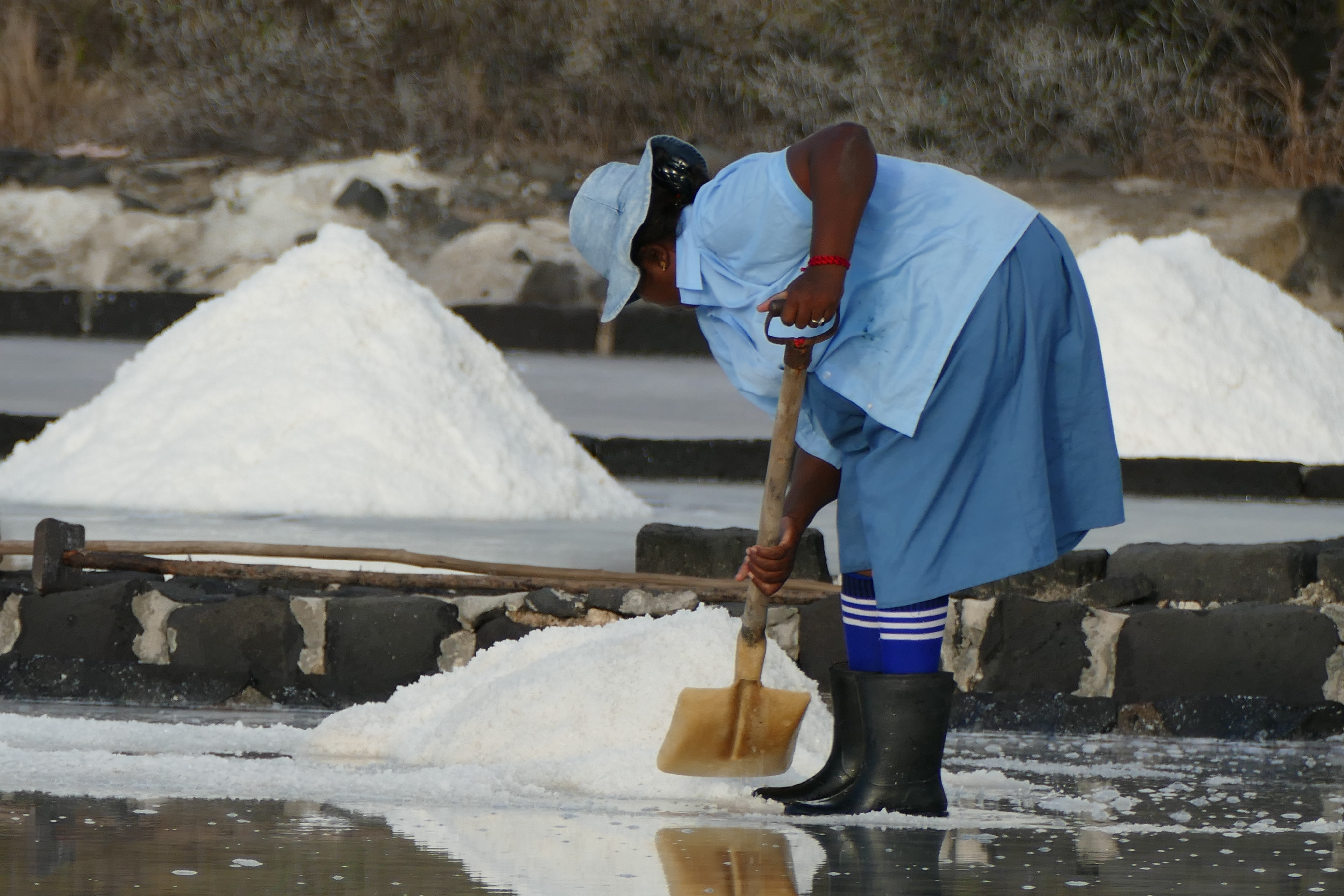 This is an image of "African people at work" from Mauritius